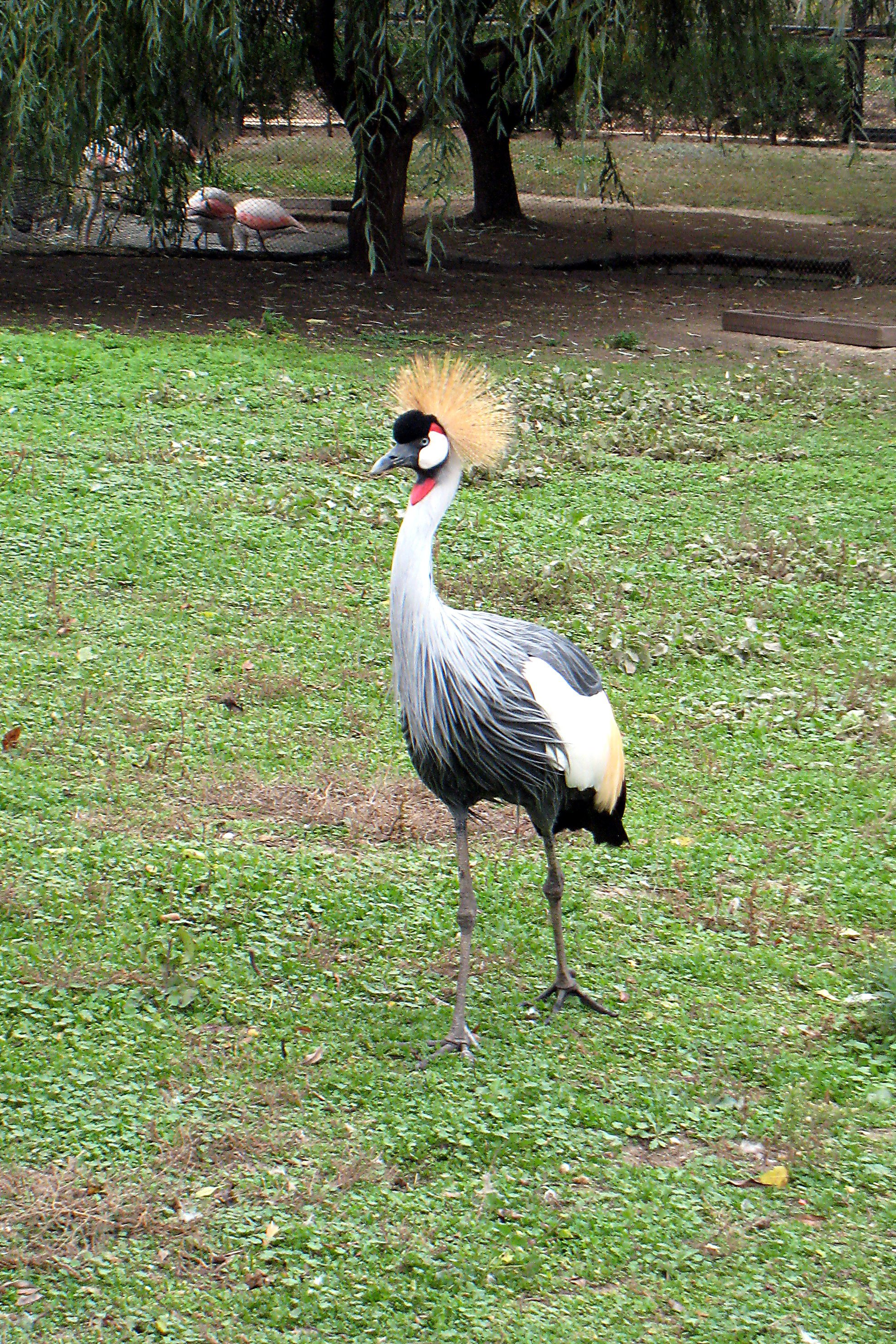 Grey Crowned Crane (Balearica regulorum) in Askania Nova, a biosphere reserve (sanctuary) located in Kherson Oblast, Ukraine